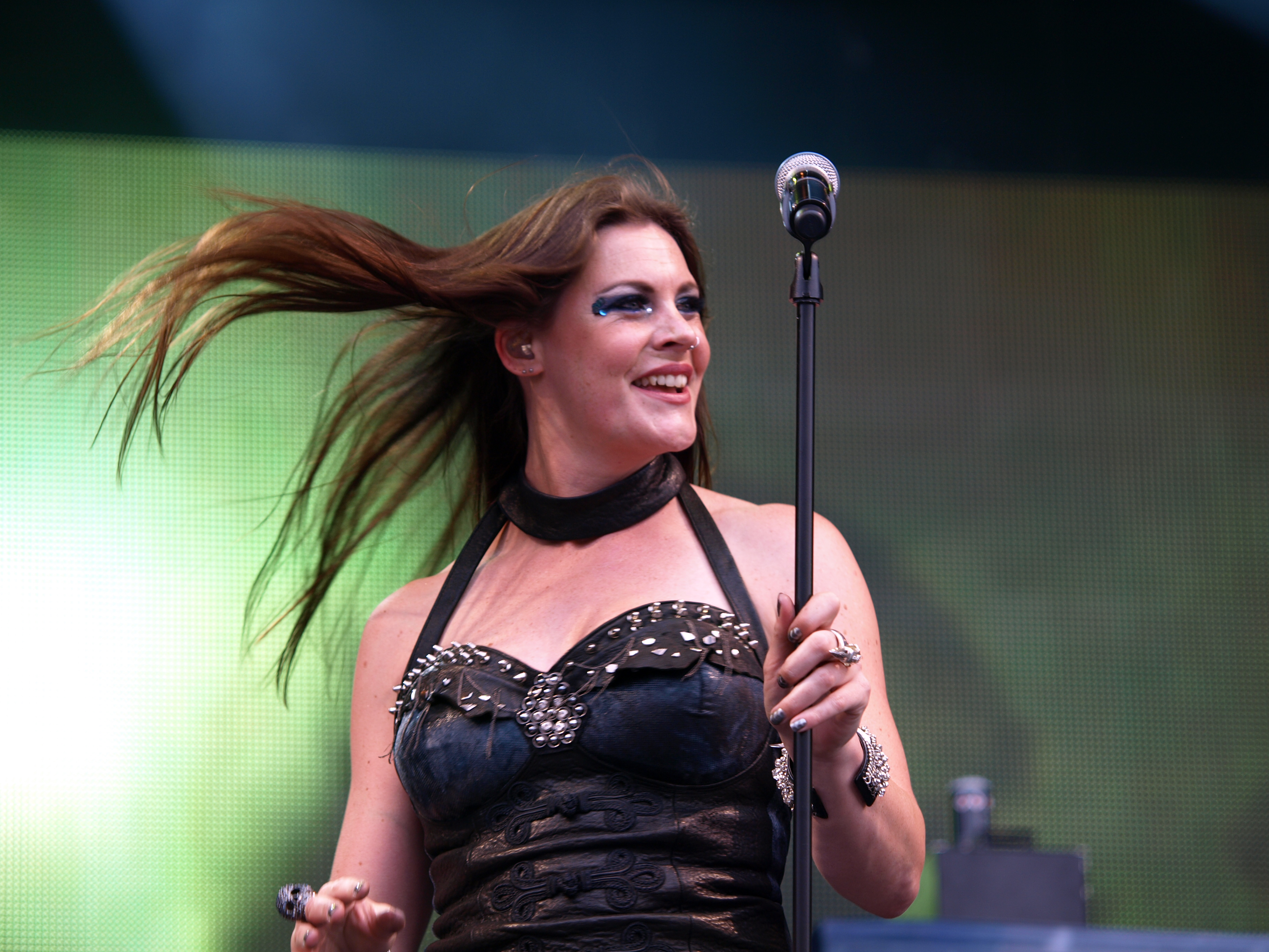 Finnish band Nightwish at Tuska Open Air 2013